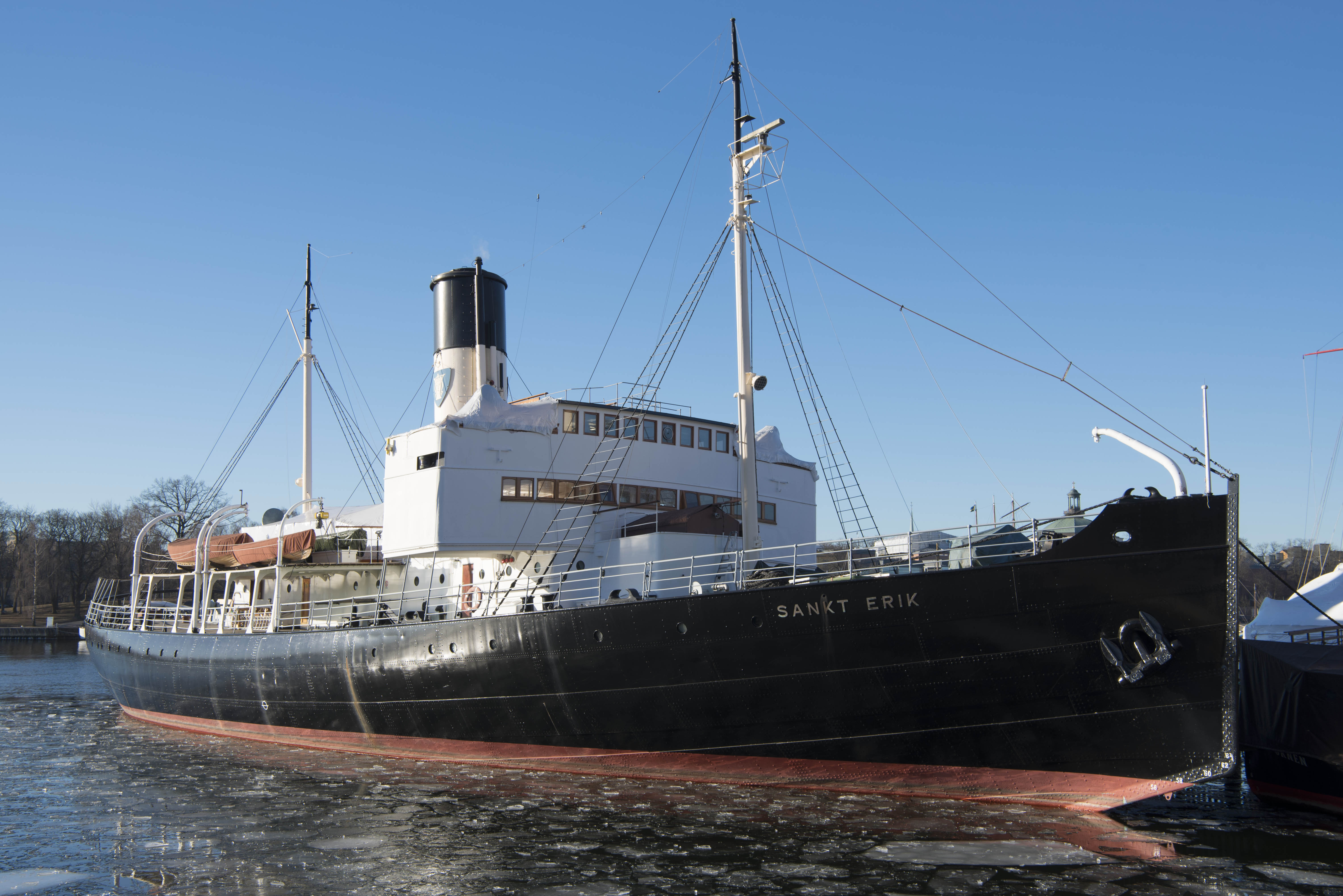 Photo of icebreaker Sankt Erik